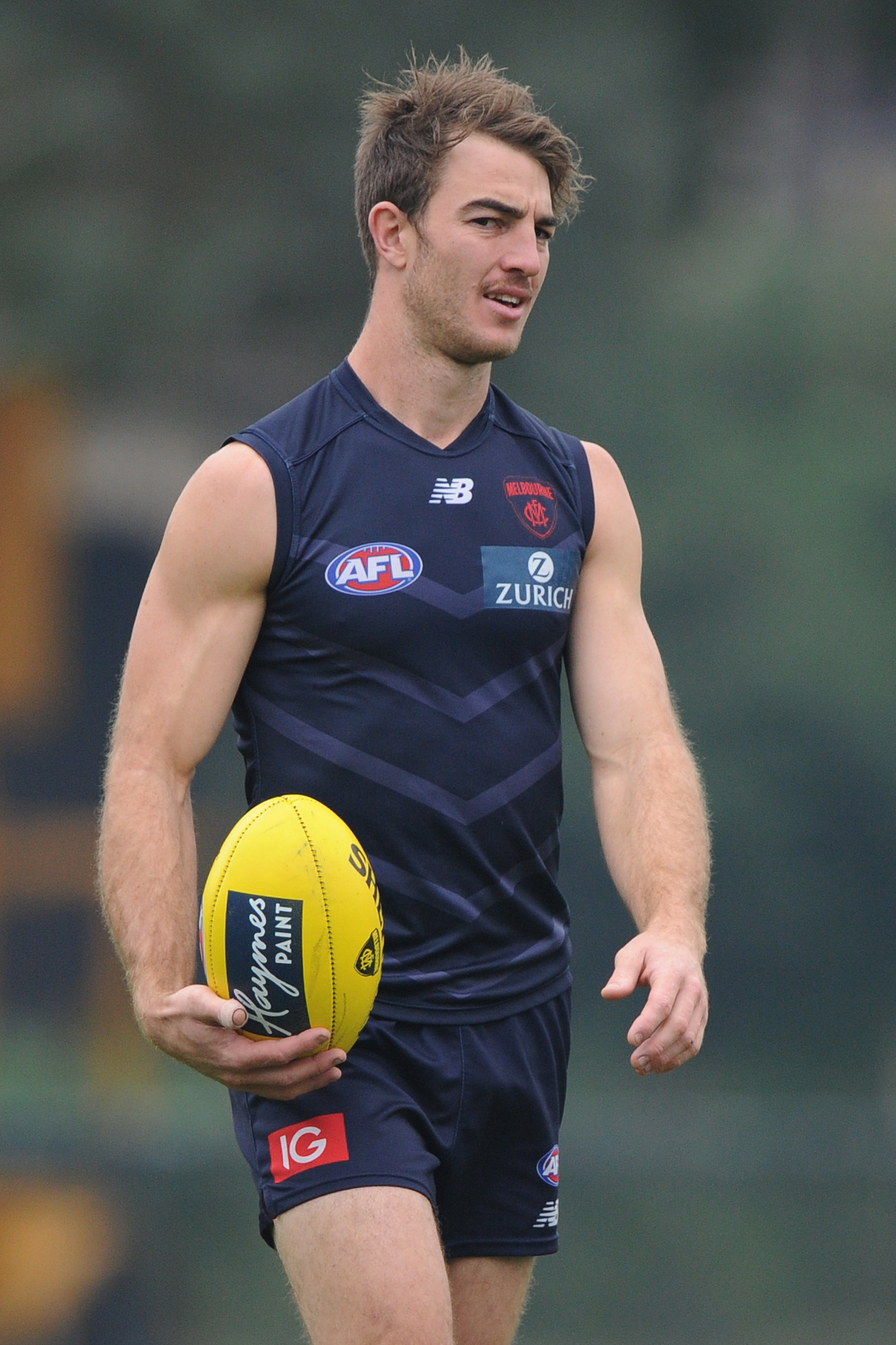 Tim Smith during Melbourne training on 21 April 2018 at Gosch's Paddock in Melbourne, Victoria.